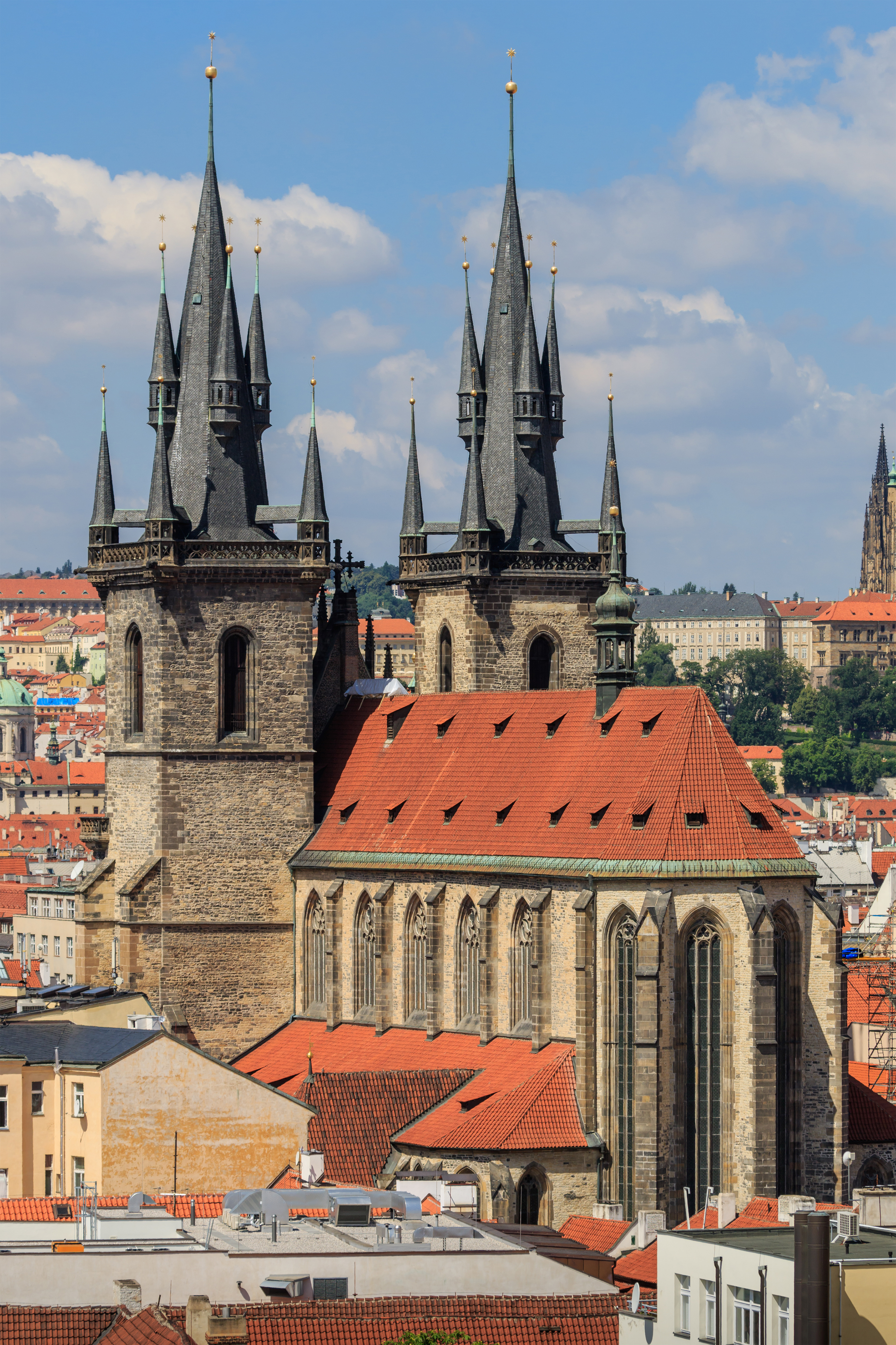 View from Powder Tower in Prague (Czech Republic)